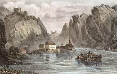 From Durnstein castle where Richard the Lionheart was imprisoned: original Austrian steel engraving. 1842. Hand-colored. 14x9cm.